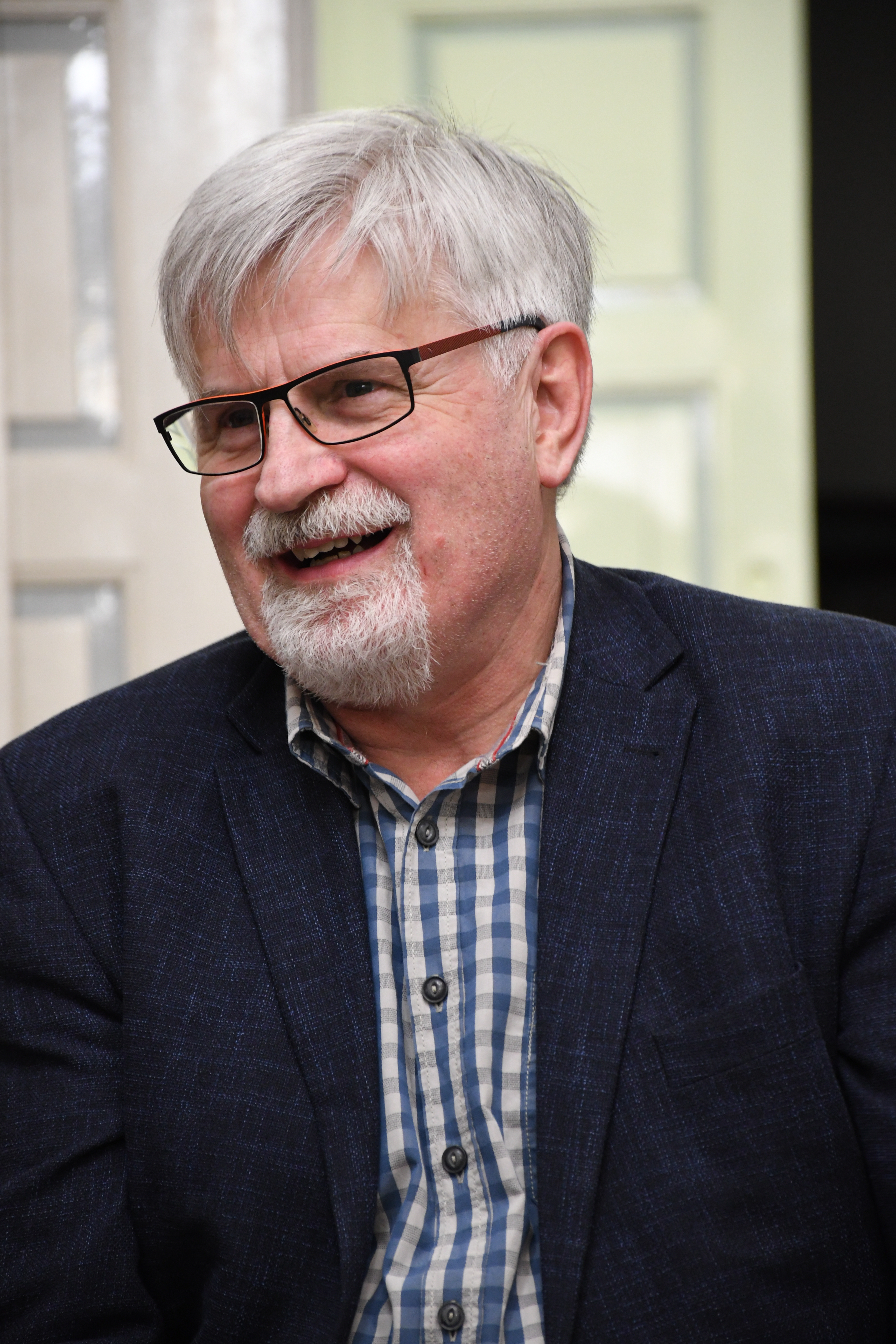 Daniel Ženatý (*1954), synodal senior of the Evangelical Church of Czech Brethren